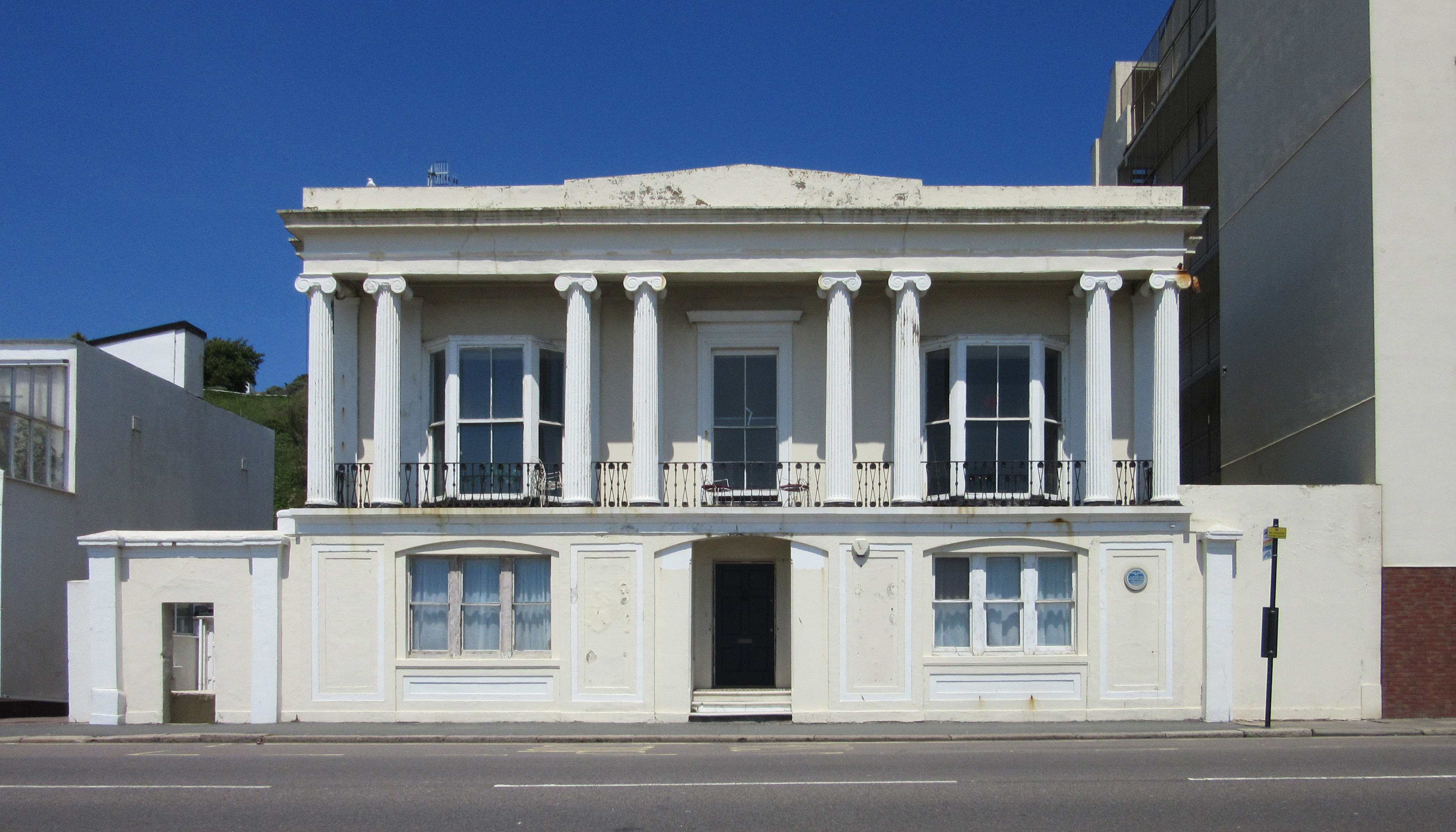 Crown House, 57 Marina, St Leonards-on-Sea, Borough of Hastings, East Sussex, England. The first building in the new resort of St Leonards-on-Sea. Princess (later Queen) Victoria stayed here in 1834–35. Grade II*-listed since 1951.